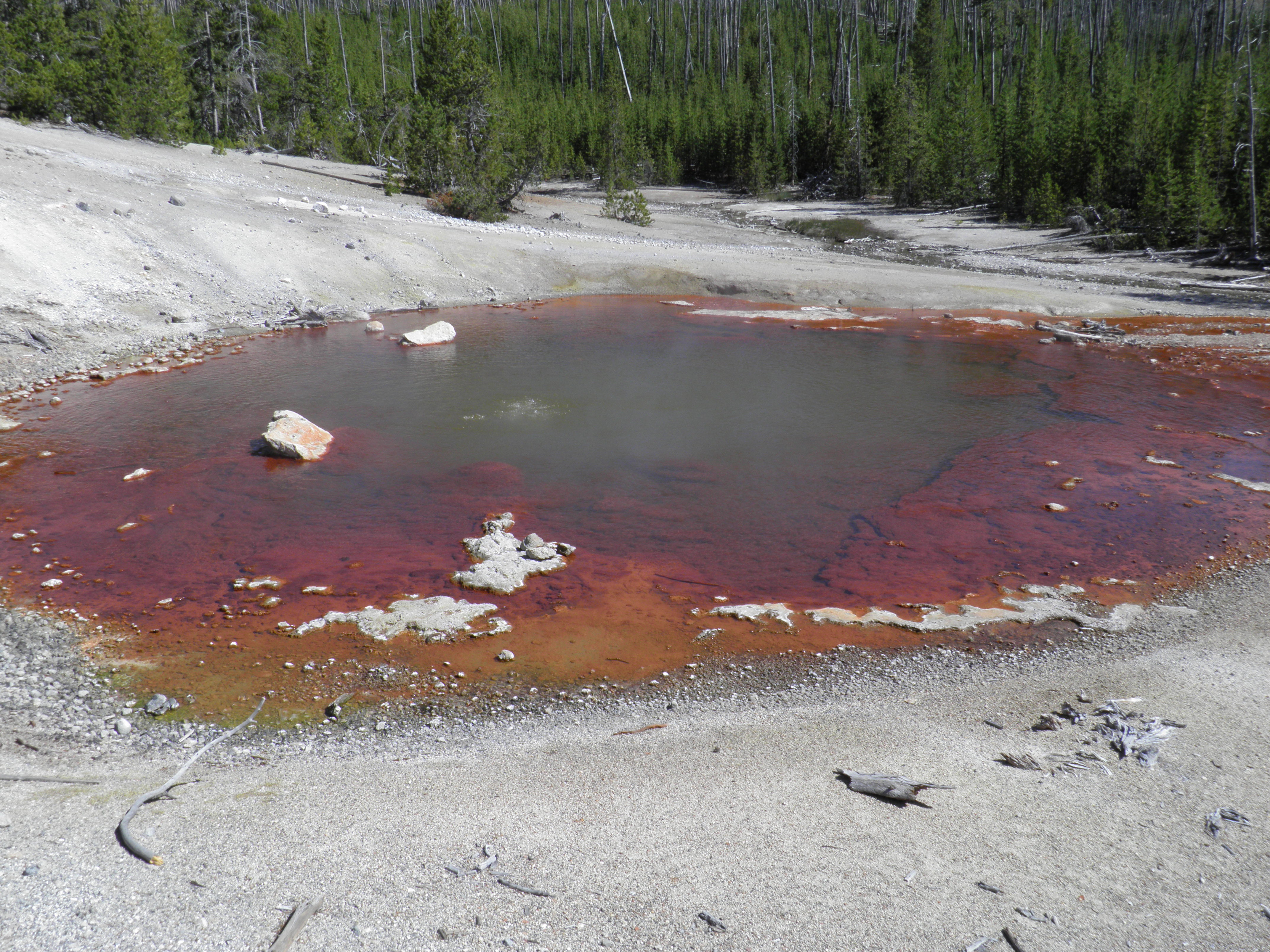 Echinus Geyser, Norris Geyser Basin, Ywllowstone National Park, Wyoming, USA.